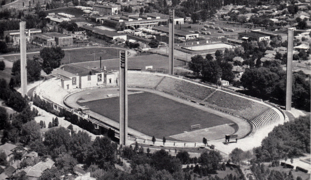 Farul Stadium in the 1980's, when it still had the form of a horseshoe.